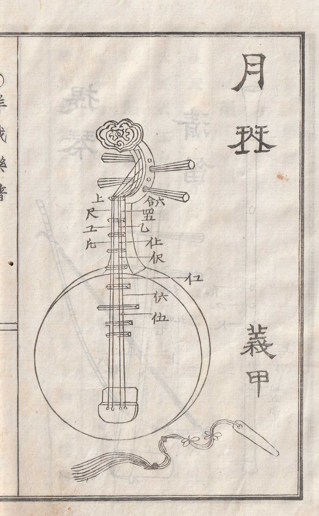 An illustration of Gekkin, or Moon Harp, from the book Youga Gakufu published in 1884, Japan.